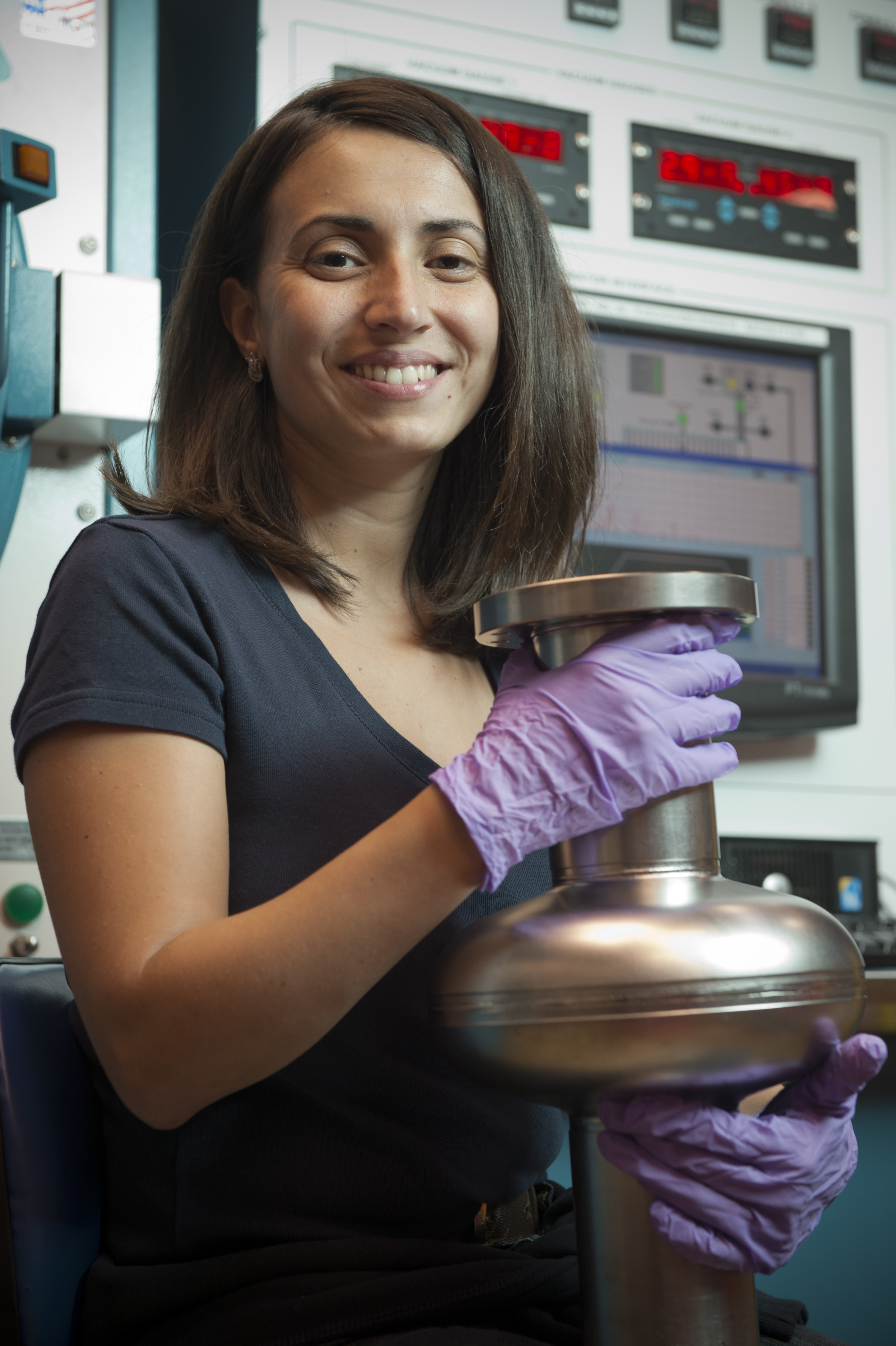 American physicist Anna Grassellino of Fermilab with single-cell cavity at IB 4 Category: Accelerator and Components Description: Anna Grassellino and Mayling Wong-Squires with single-cell cavity at IB 4